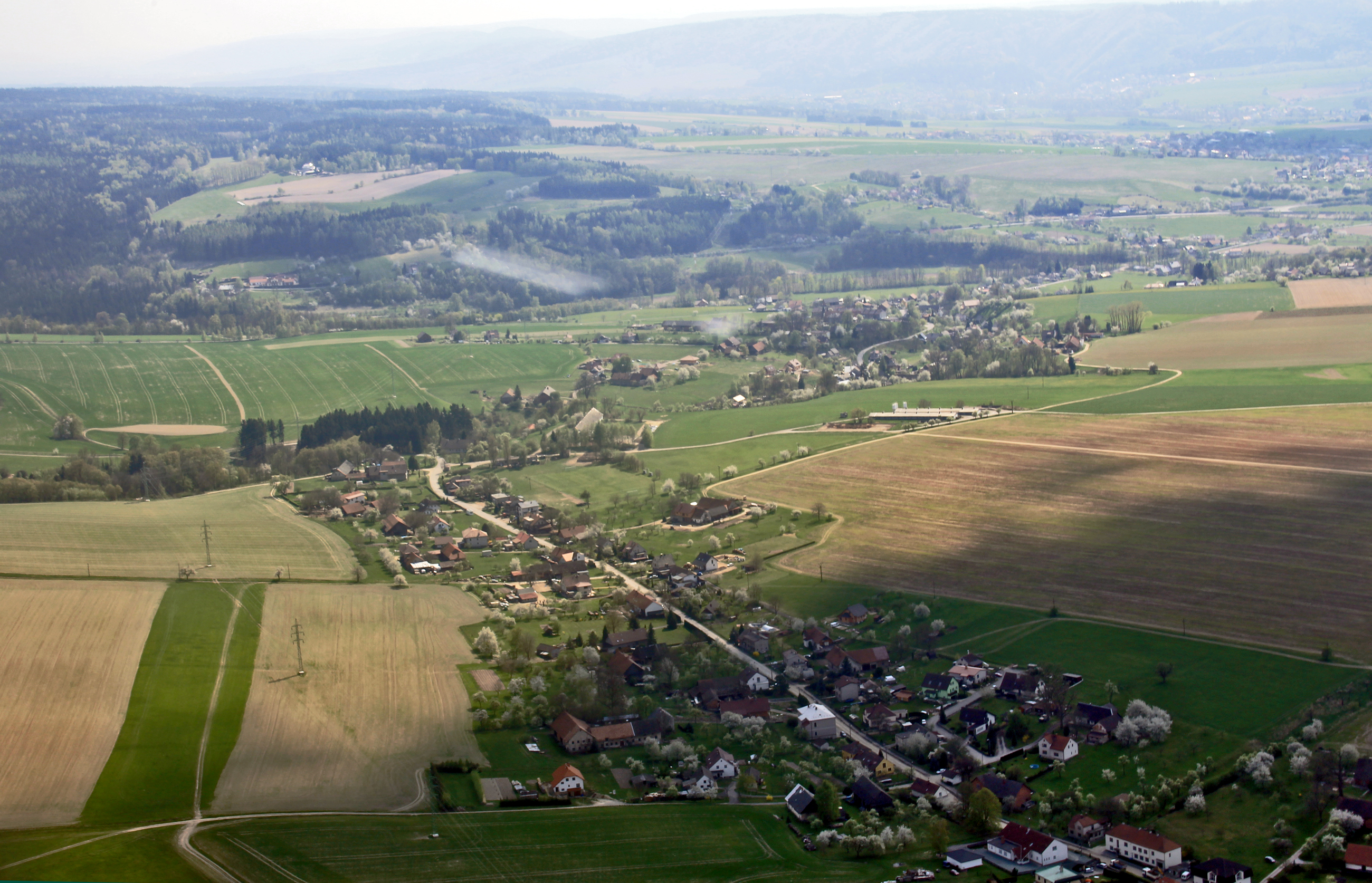 Villages Dlouhá Ves and Roveň part of town Rychnov nad Kněžnou from air, eastern Bohemia, Czech Republic